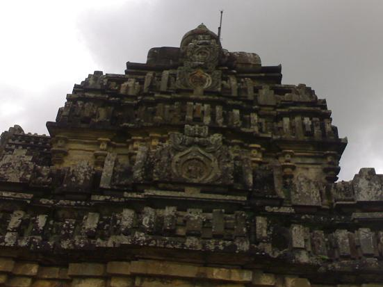 Tamboor Basavanna temple, near Kalghatgi Author and Source : Manjunath Doddamani, Gajendragad, Karnataka (North), India